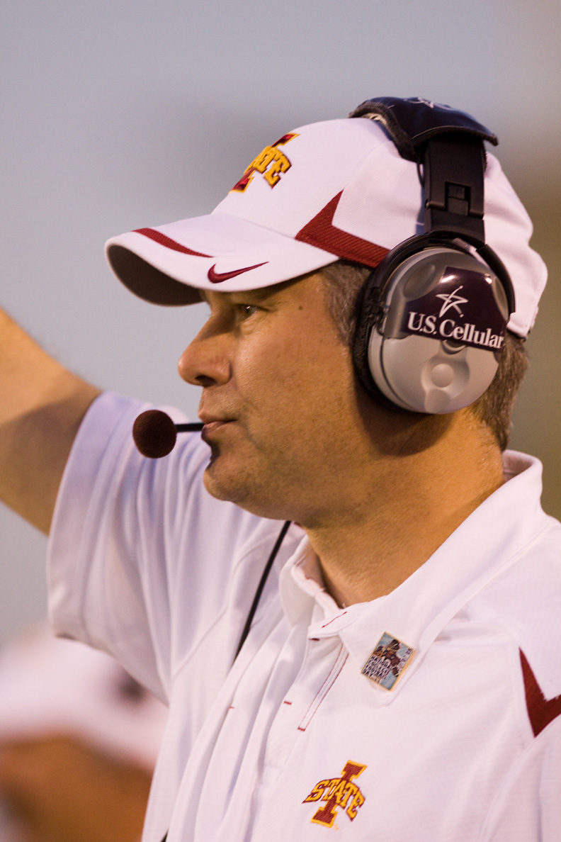 Paul Rhoads during an Iowa State Football game against Oklahoma State in Ames, IA, on Saturday, November 7, 2009.